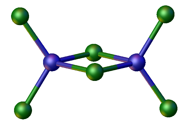 [Zn2Cl6]2- from doi 10.1021/ic00200a023.